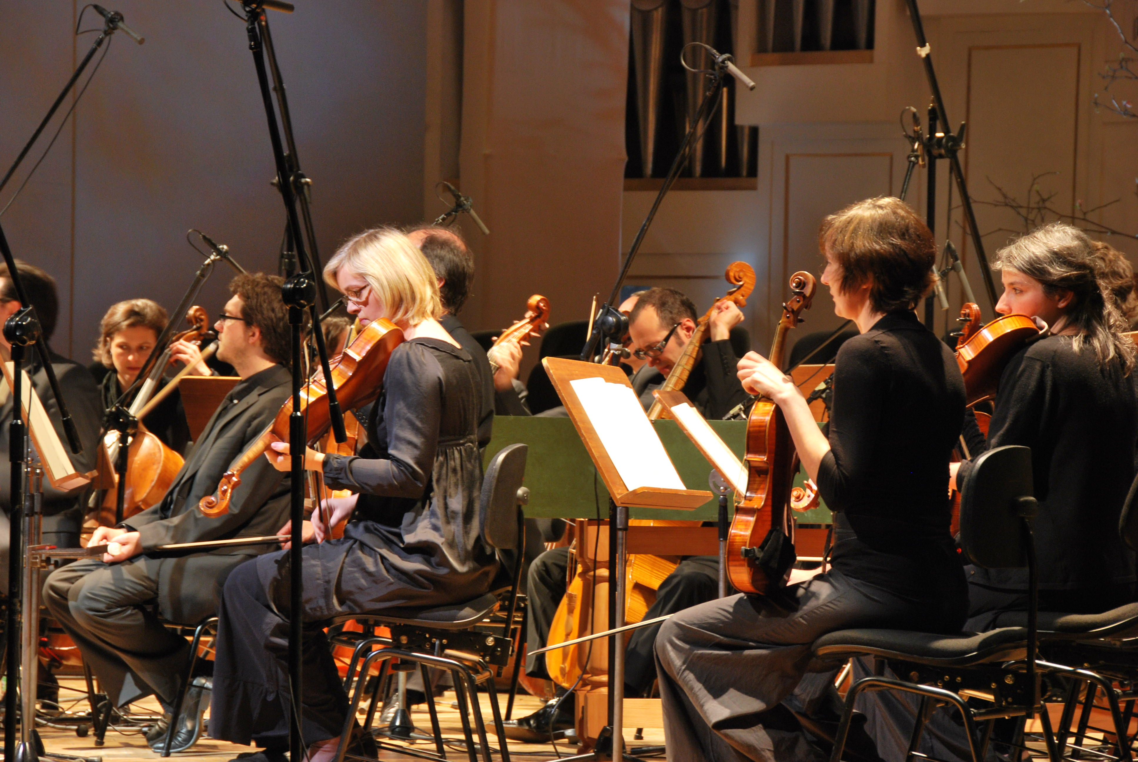 Le Concert d’Astrée, Misteria Paschalia Festival, Kraków Philharmonic, 19.04.2011.